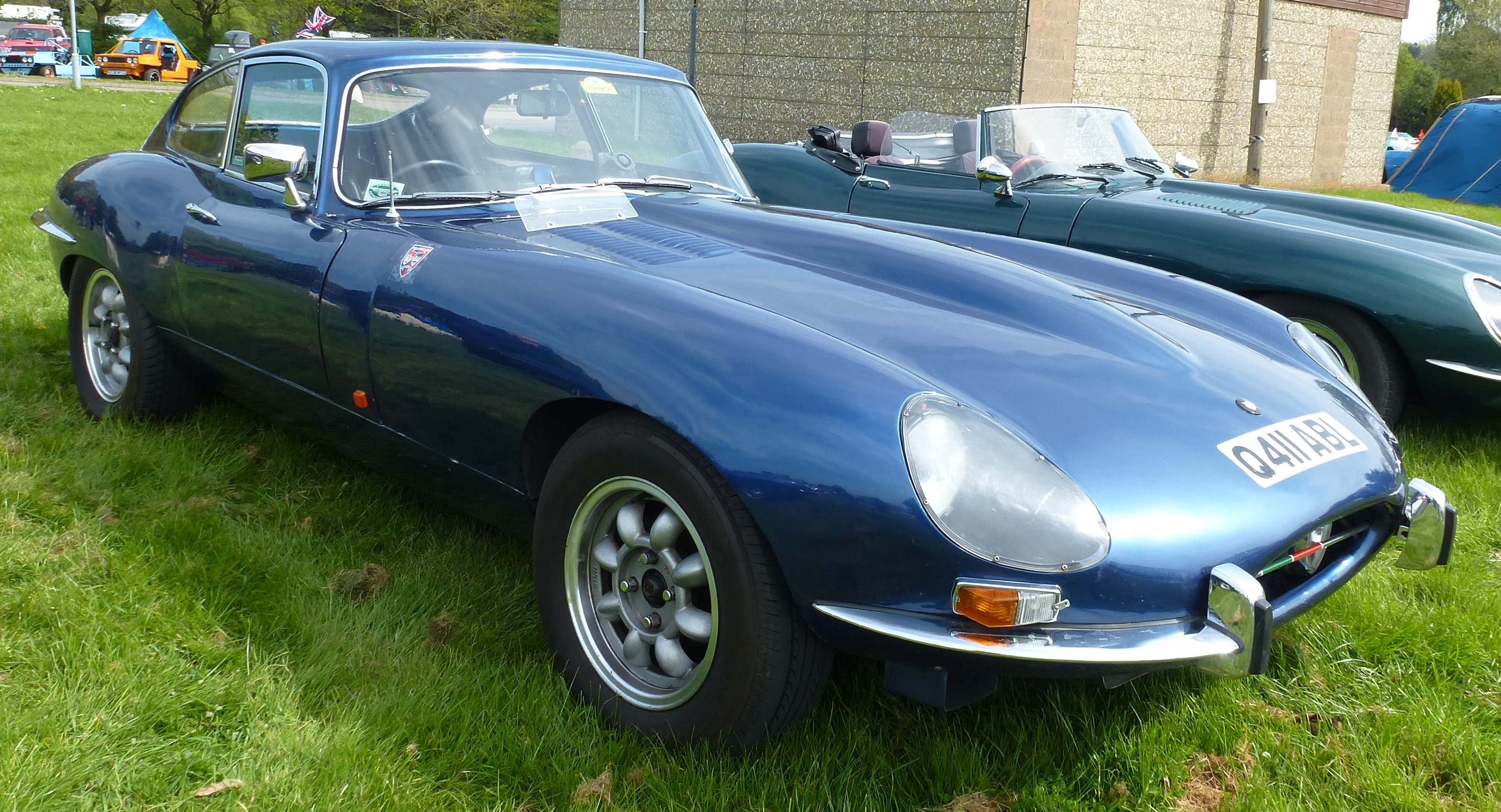 JPR Wildcat